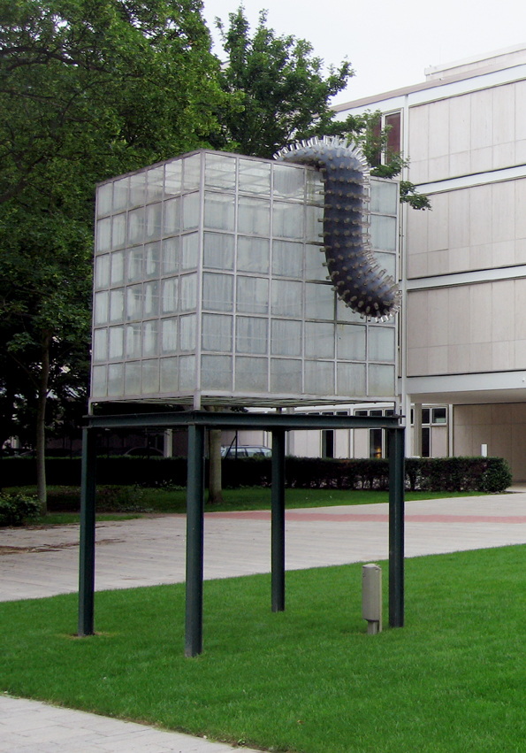 Raupe (“caterpillar”), sculpture from 1974 by Bernd Uiberall at the Präsident-Kennedy-Platz in Bremen, Germany.